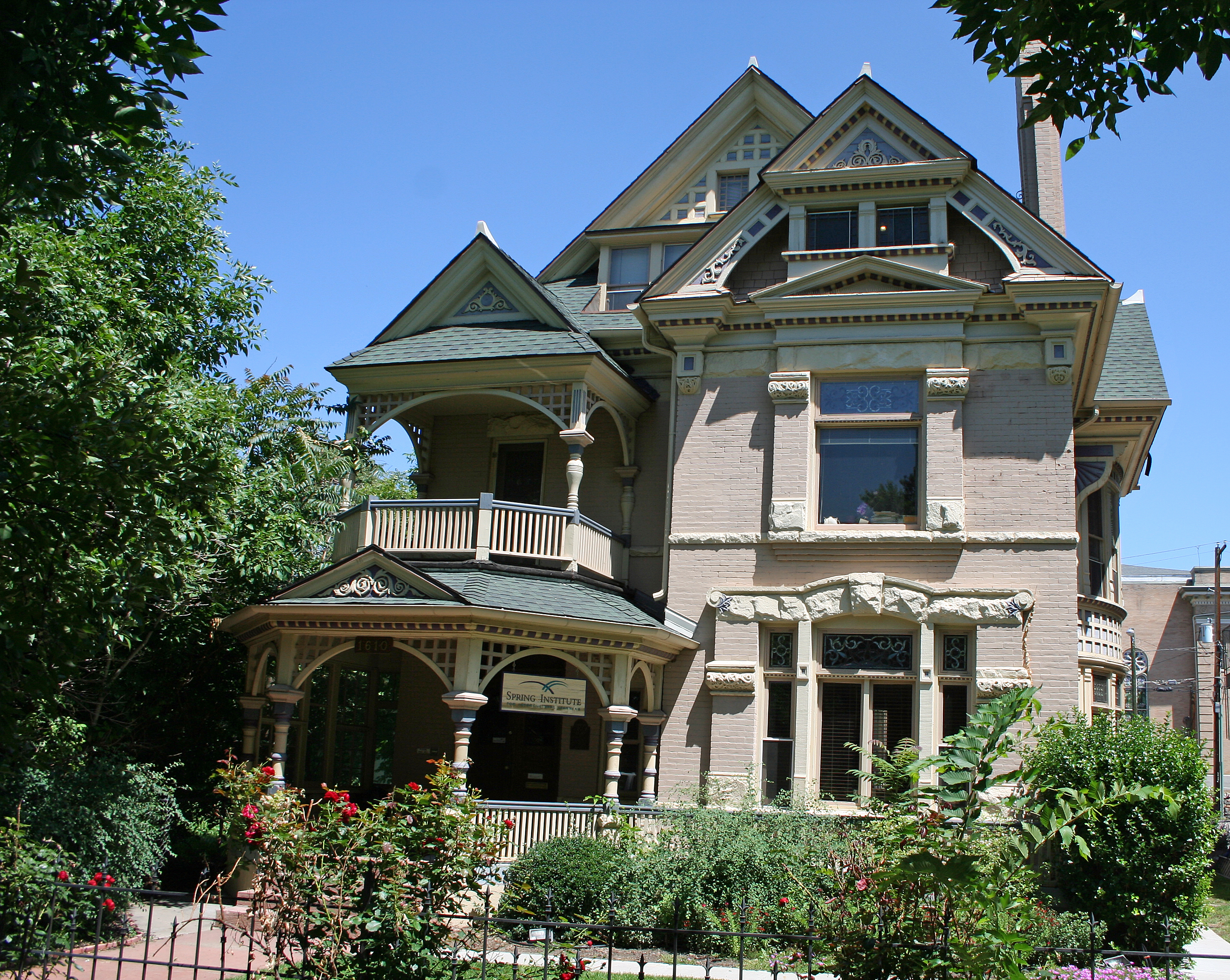 The Flower-Vaile House, located at 1610 Emerson Street in Denver, Colorado